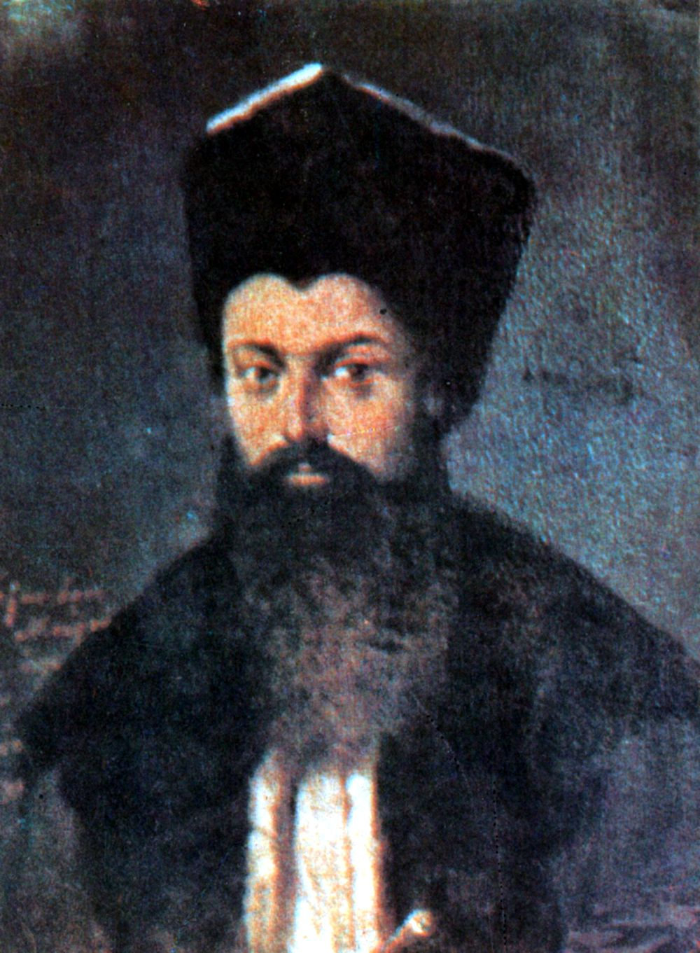 Painture at Historical and Ethnological Society Museum from Athens